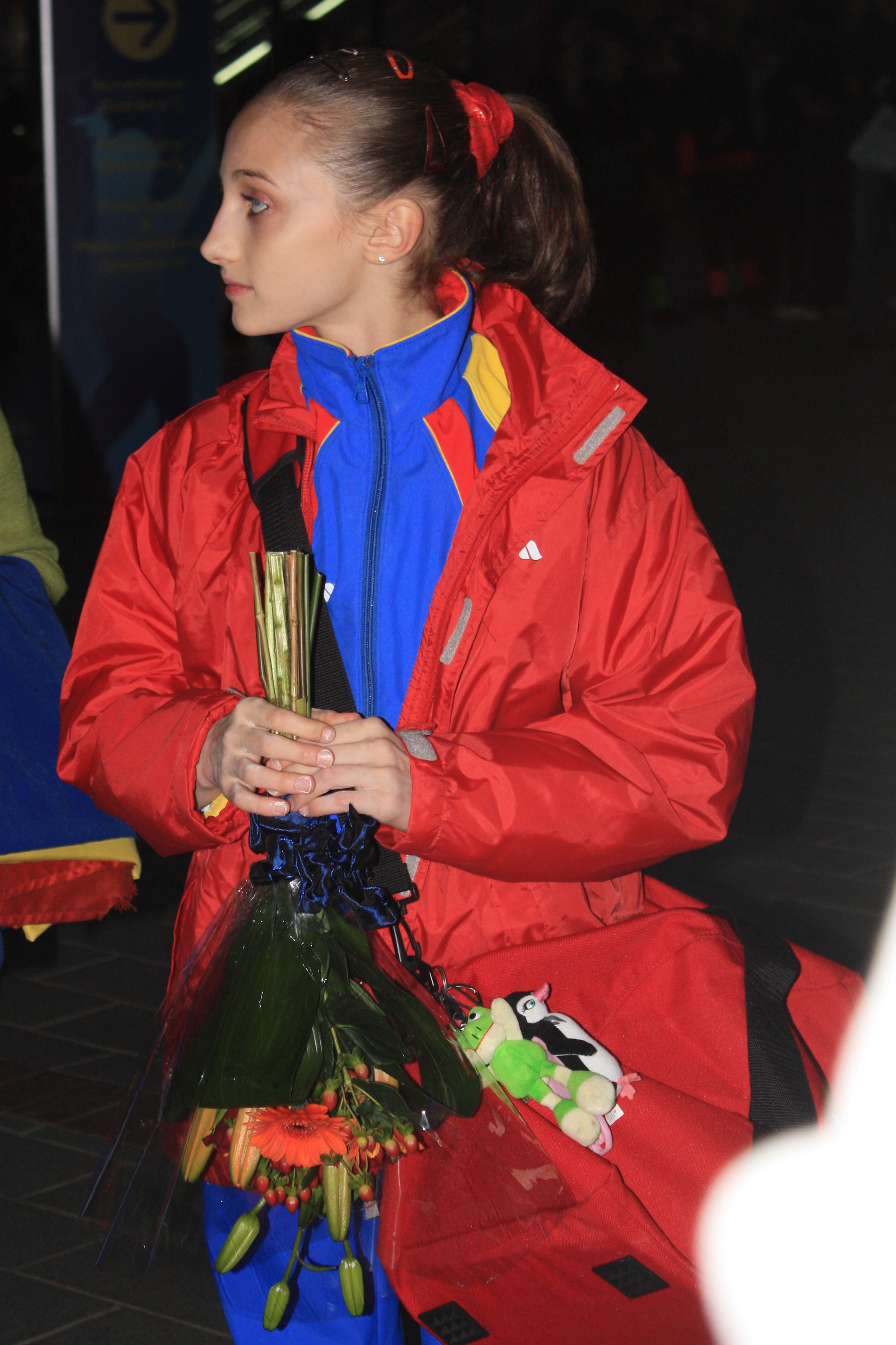 Roumanian gymnast Ana Porgras at the 2009 World Artistic Gymnastics Championships.